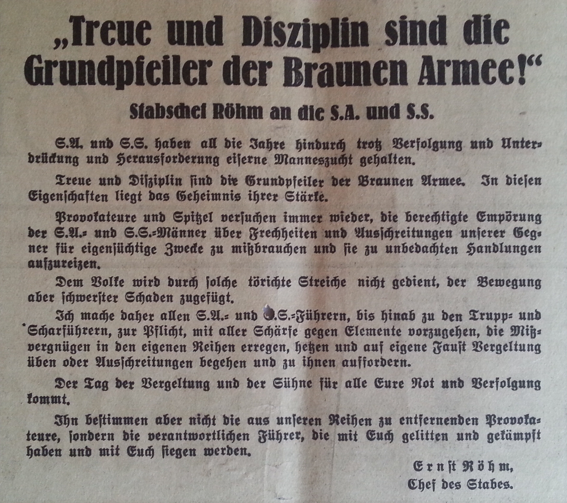 Ernst Röhm critcises the SA and SS for unauthorized actions